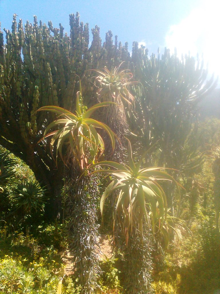 Aloe speciosa - Tilt-head Aloe - South Africa